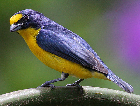 A male photographed by Arenal, Costa Rica.